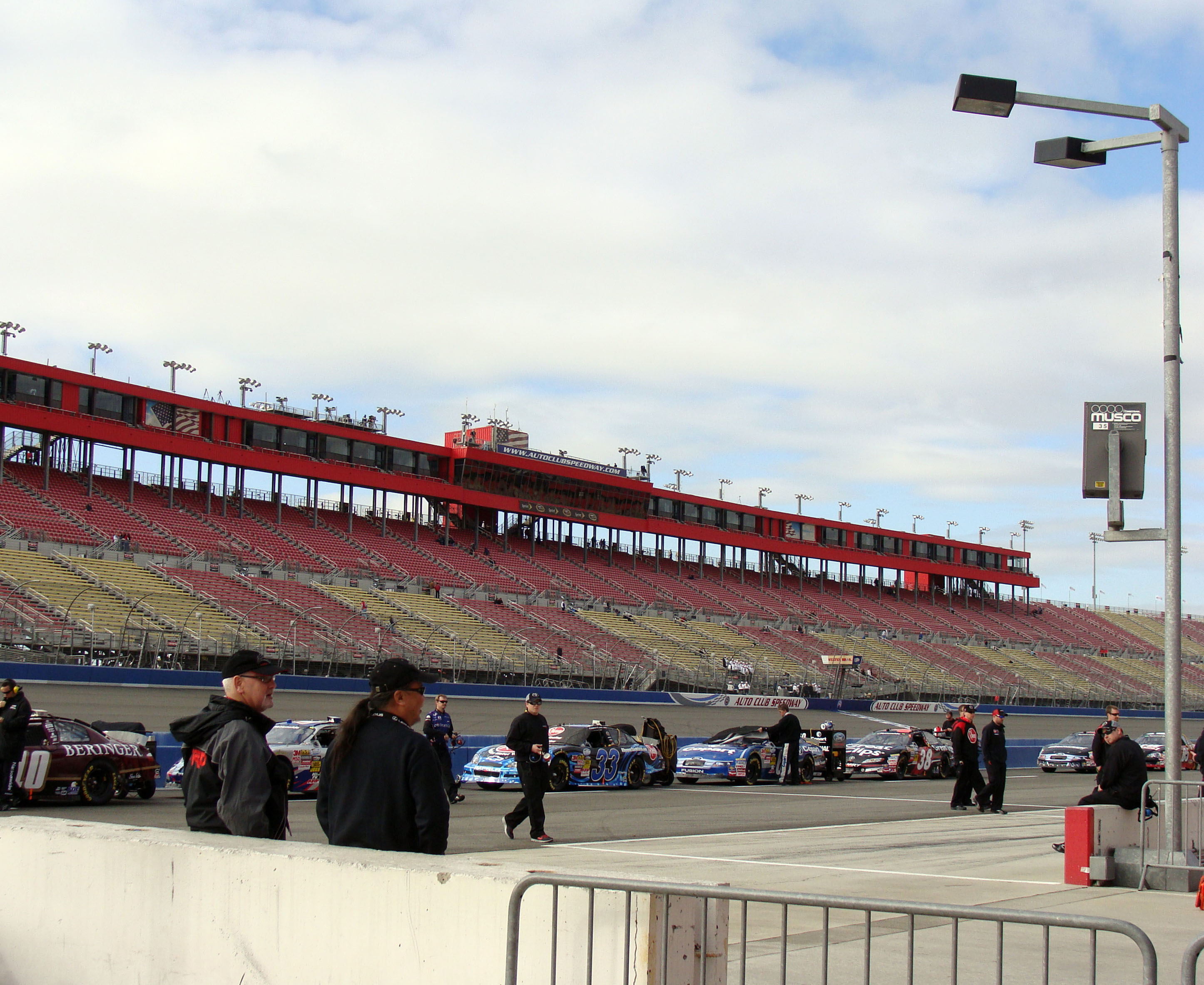 Auto Club Speedway From Pit Road During Nationwide Series Qualifying